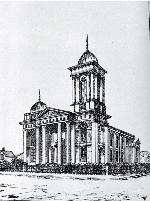 In 1876 Samuel Farr (1827-1918) drew up a Grecian design for a wooden church to seat 1,200. Because suitable timber would not be available for six months, Farr produced specifications for the same design in brick. Peter Hyndman's tender of £7,999 was accepted in Sept. The foundation stone was laid on 6 November 1876 and the building opened on 28 October 1877. Because of its dangerous condition, the tower was demolished in 1962.